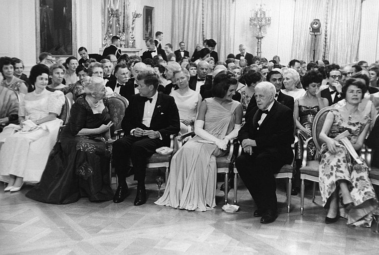 Dinner for Nobel Prize Winners of the Western Hemisphere. Mrs. Lady Bird Johnson, Pearl Buck, President Kennedy, Mrs.Jacqueline Kennedy, Robert Frost, others. East Room, White House.